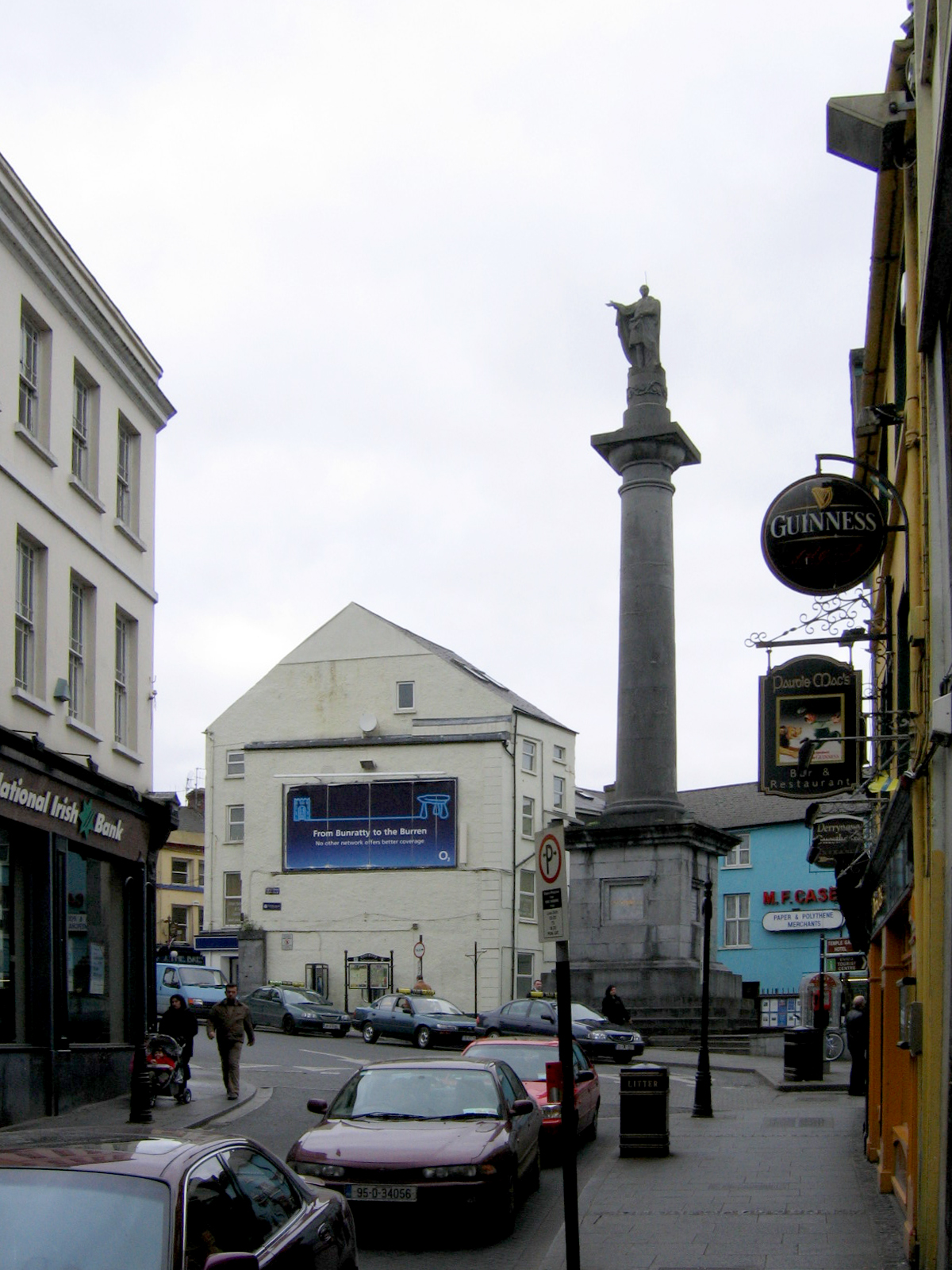 Monument to Daniel O'Connell in Ennis, County Clare, Republic of Ireland.